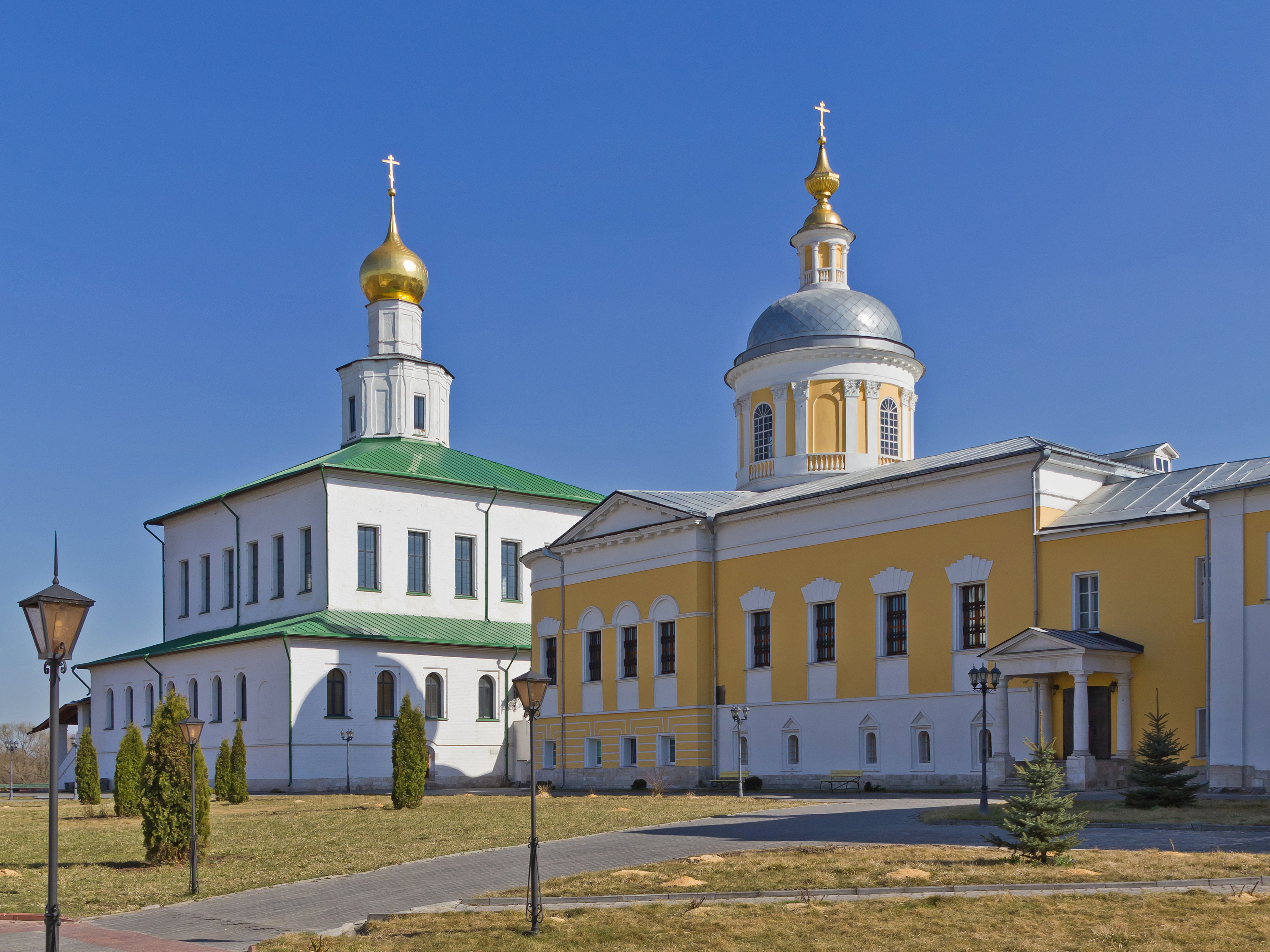 Church of St. Sergius, and the Epiphany Cathedral of Staro-Golutvin Monastery in Kolomna, Moscow Oblast, Russia.